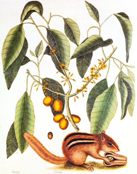 Natural History of Carolina, Florida and the Bahama Islands Subject : Squirrel and Cormus